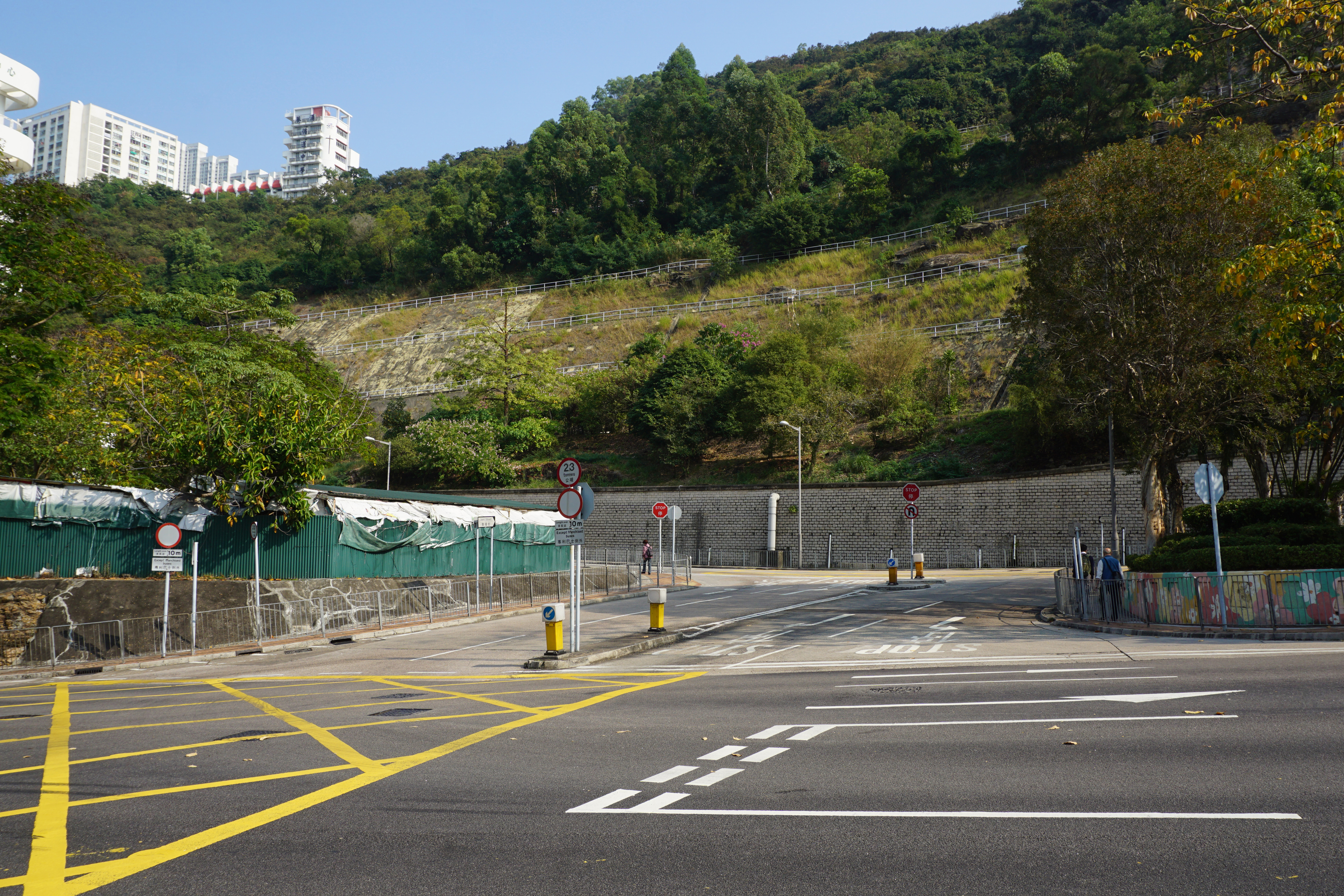 Joint Street in Lai King, Hong Kong.